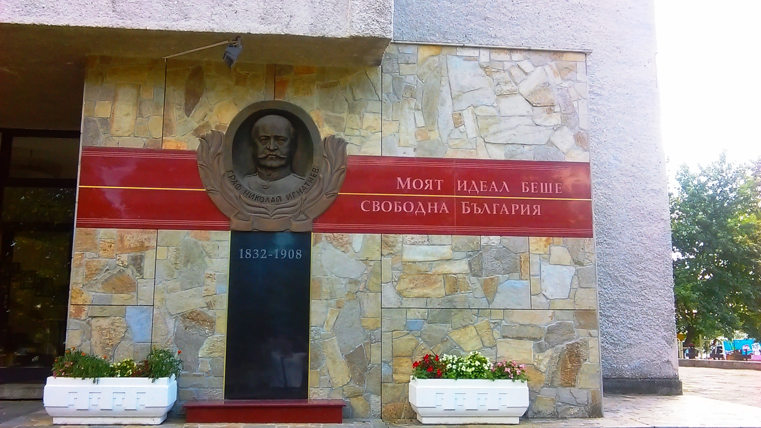 A memorial to Nikolay Pavlovich Ignatyev in Graf Ignatievo, Maritsa Municipality, southern Bulgaria.